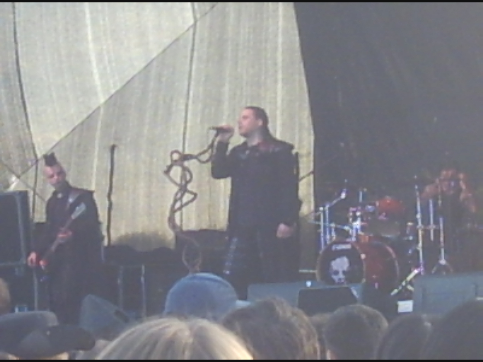 Diary of Dreams live auf dem Hexentanz Festival 2008